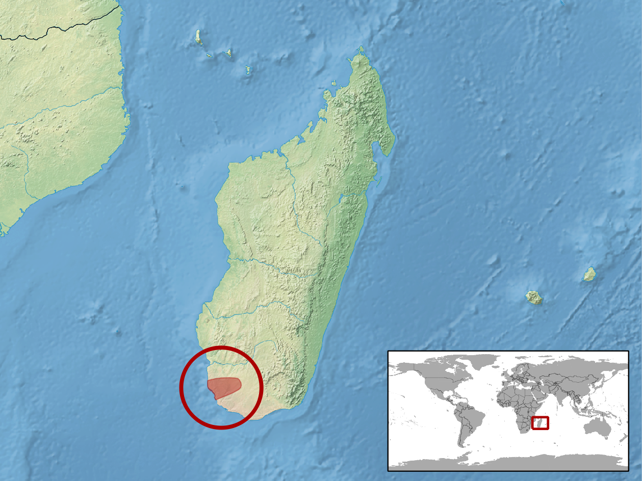 geographic distribution of Paroedura maingoka (Native: Madagascar)